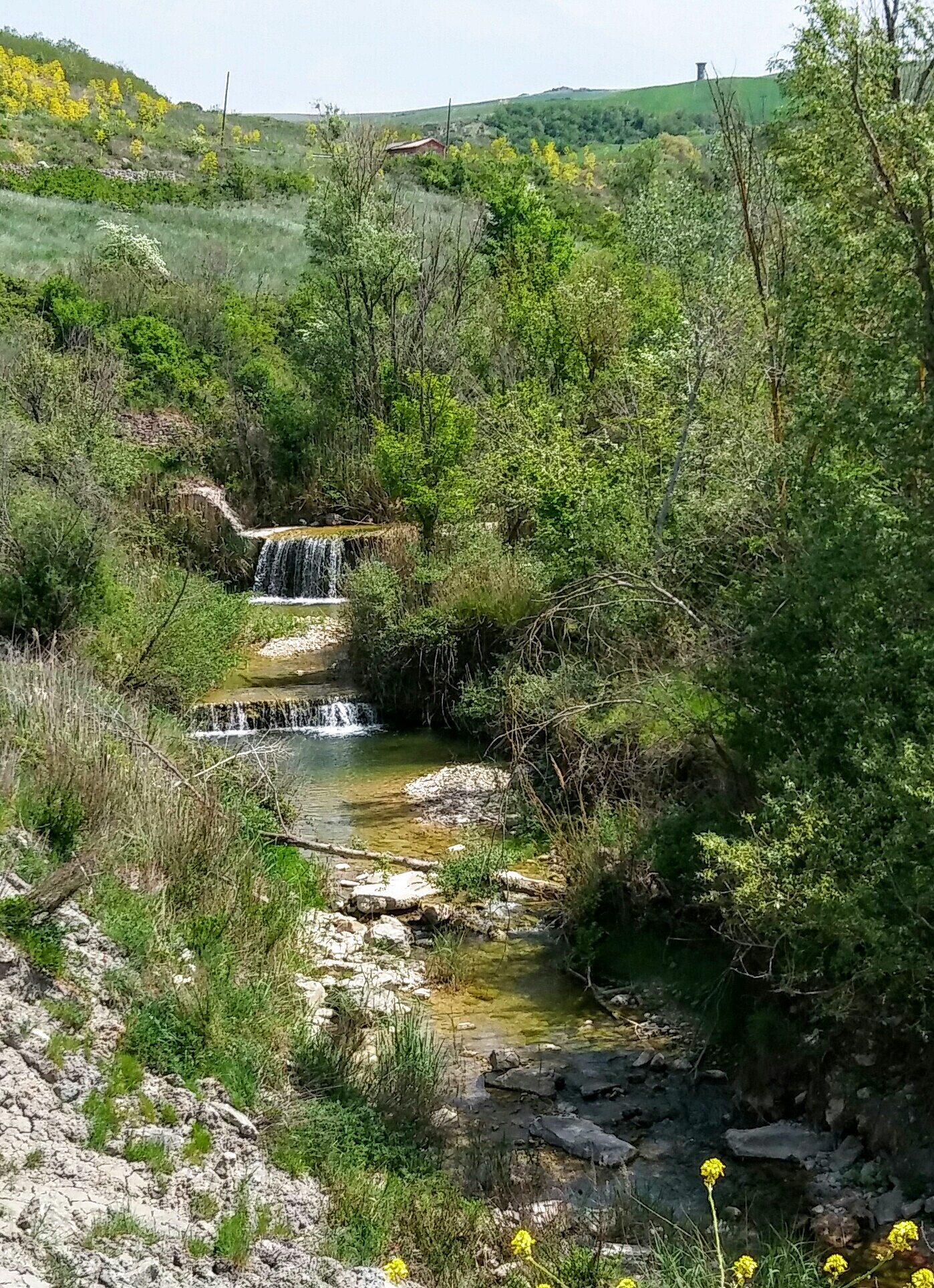 A view of Starza torrent just before its outlet into Miscano river 8 km north of Ariano Irpino, Italy